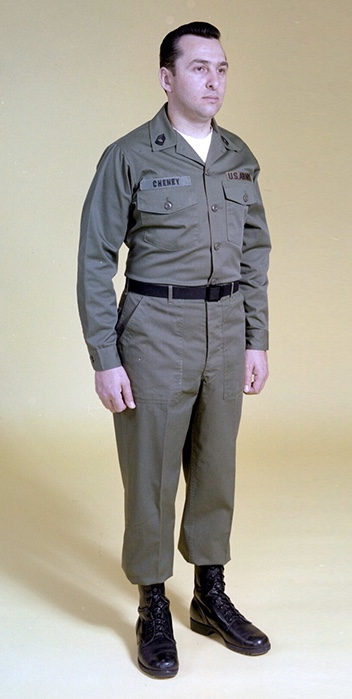 A soldier models the durable press OG-507 fatigue uniform at the U.S. Army Natick Soldier Research, Development & Engineering Center. April 8, 1977.